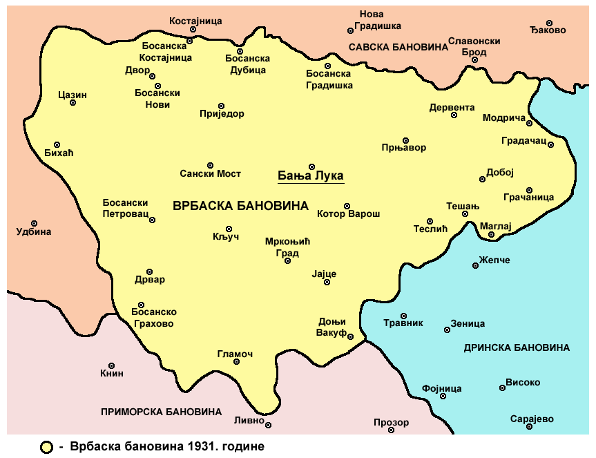 Vrbas banovina (province) of the Kingdom of Yugoslavia in 1931.